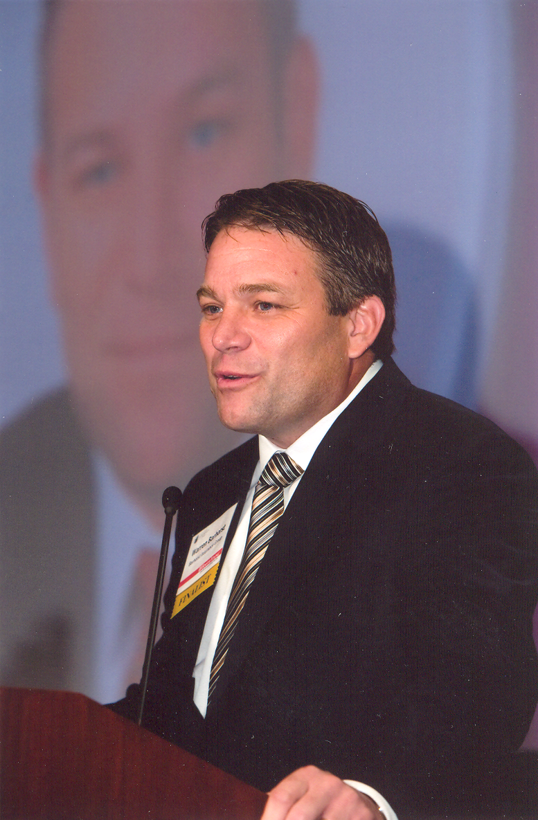 Warren Barhorst speaking at the Entrepreneur of the Year award ceremony